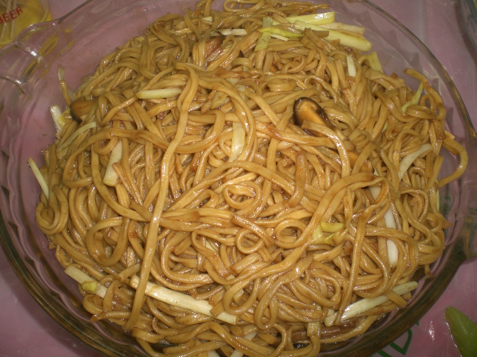 中國食品 韭菜 伊麵